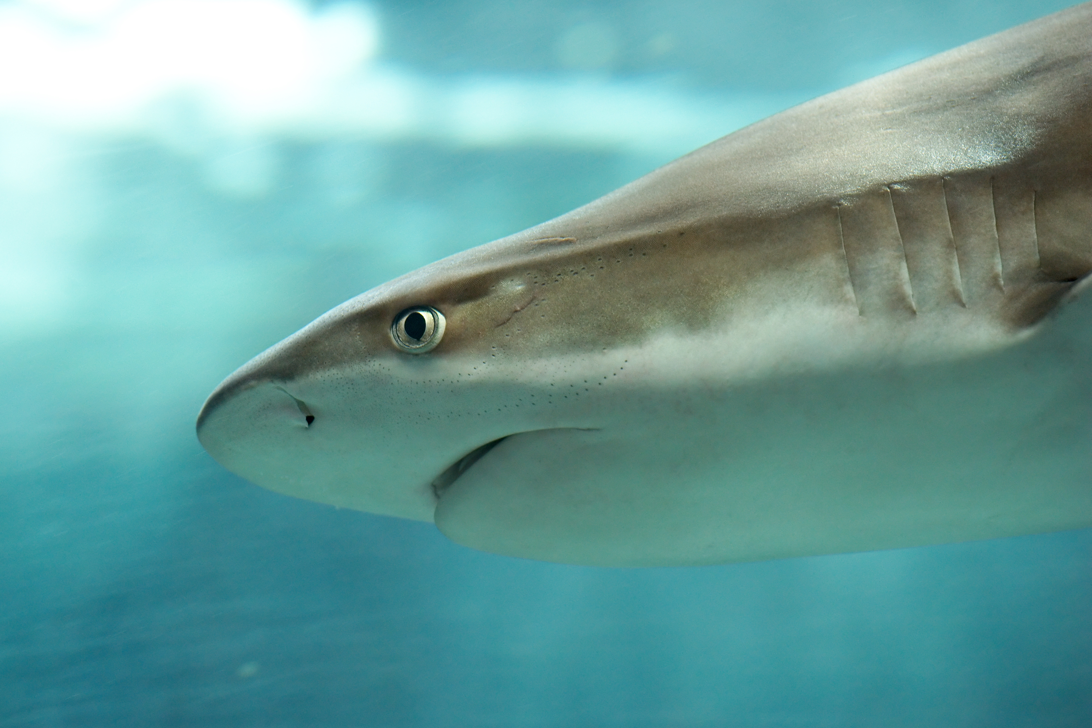 A blacktip reef shark (Carcharhinus melanopterus), at aquarium museum Liège (Belgium)